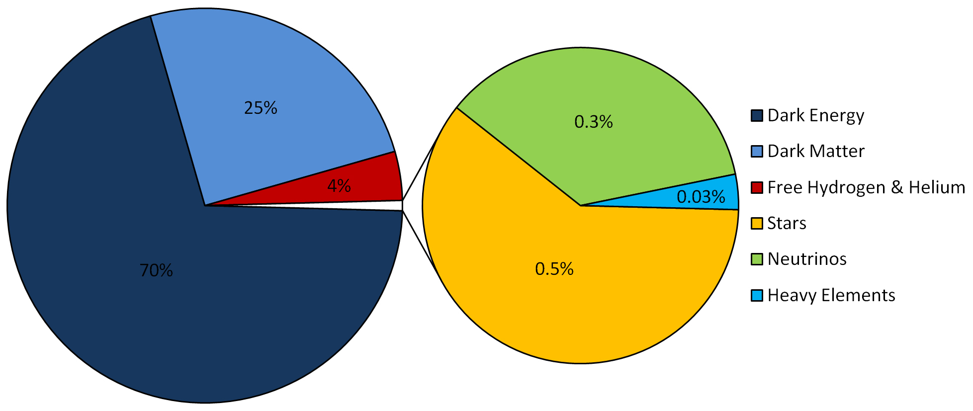 A pie of pie chart illustrating the cosmological composition of the universe.